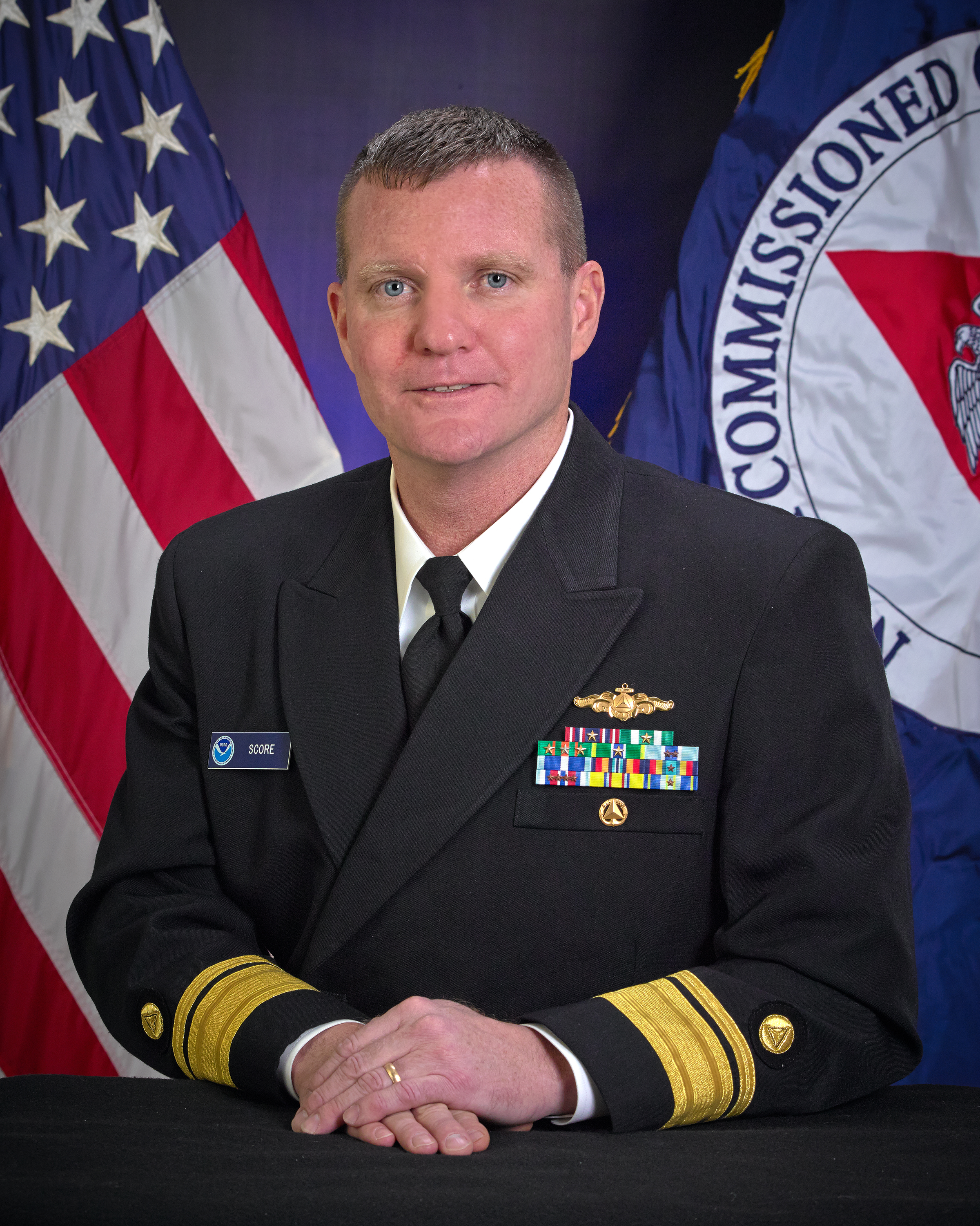 Rear Admiral David A. Score, NOAA Director, NOAA Commissioned Officer Corps and Deputy Director for Operations, Office of Marine and Aviation Operations